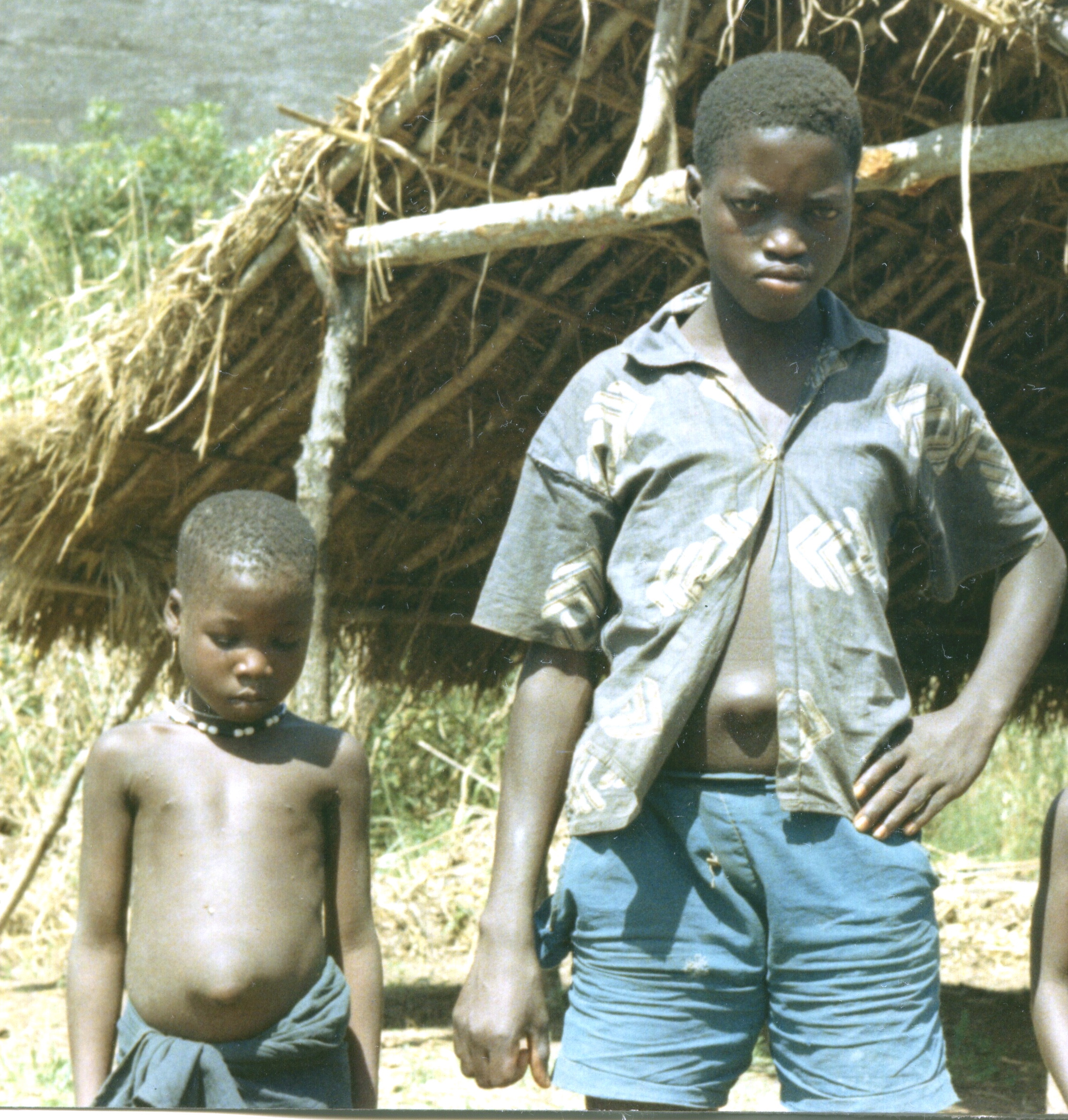 Children with umbilical hernias, Sierra Leone (West Africa), photo taken between Kabala and Yagala, Sierra Leone, November, 1967.